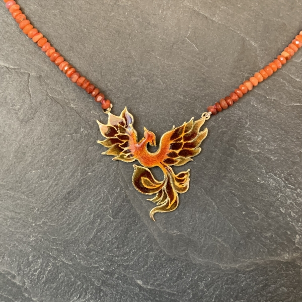 Gold necklace with plaque-à-jour and basse-taille by Coralie Arntz, 2019